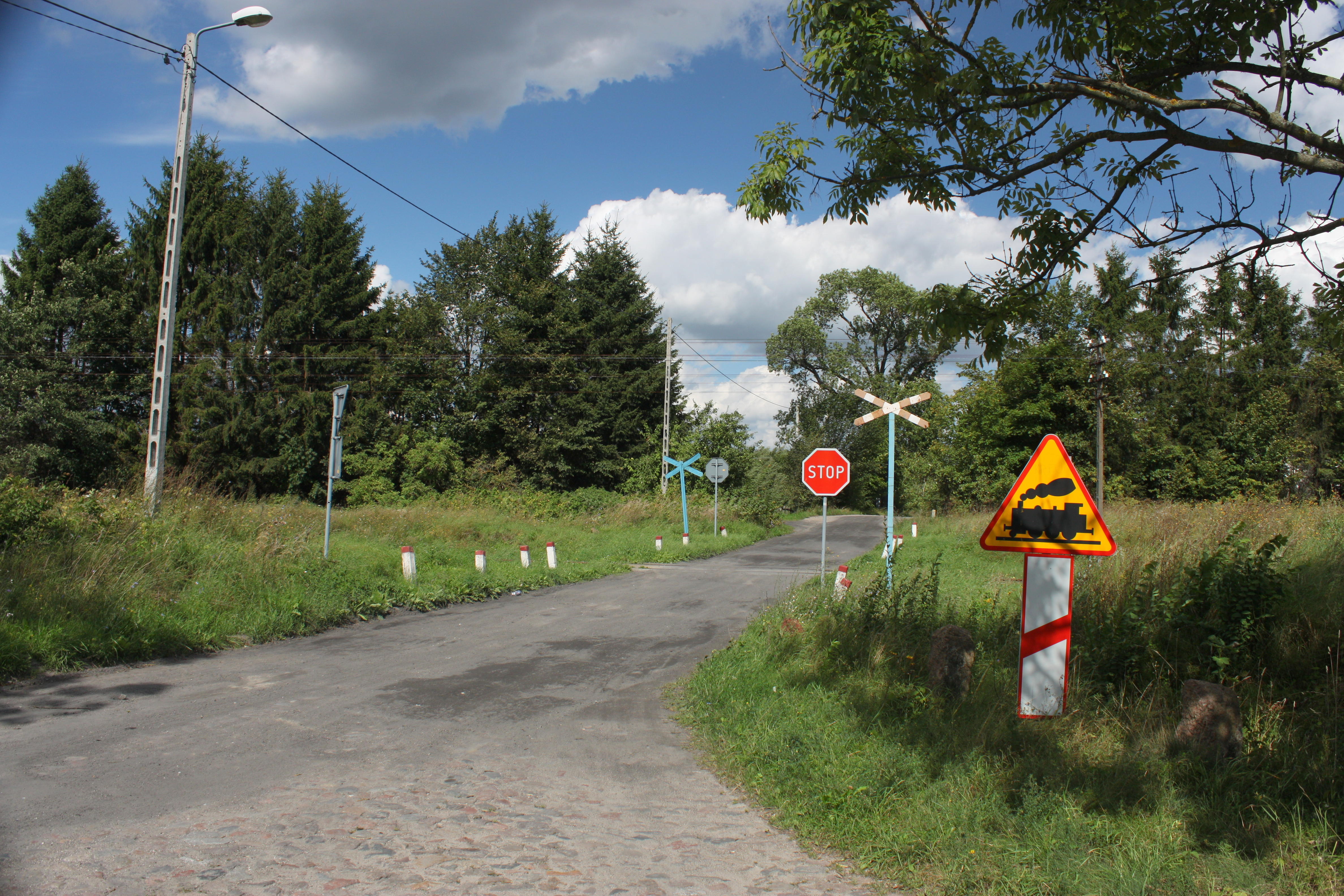 Railway crossing in Probark.